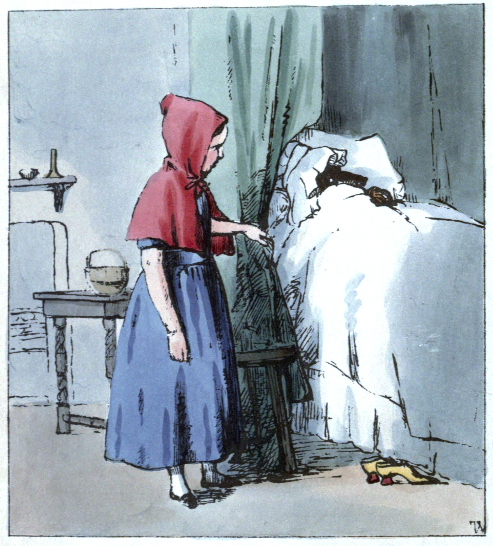 Illustration of the fairy tale “Little Red Riding Hood”